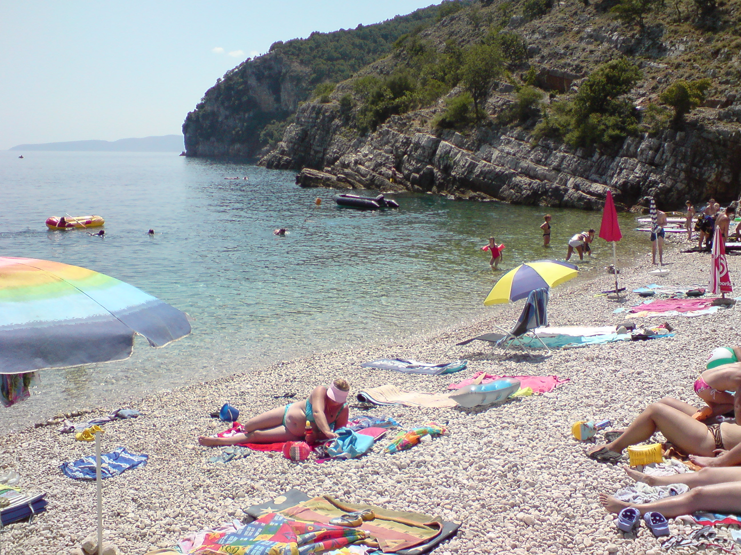 Beach in Beli on the island of Cres, Croatia.